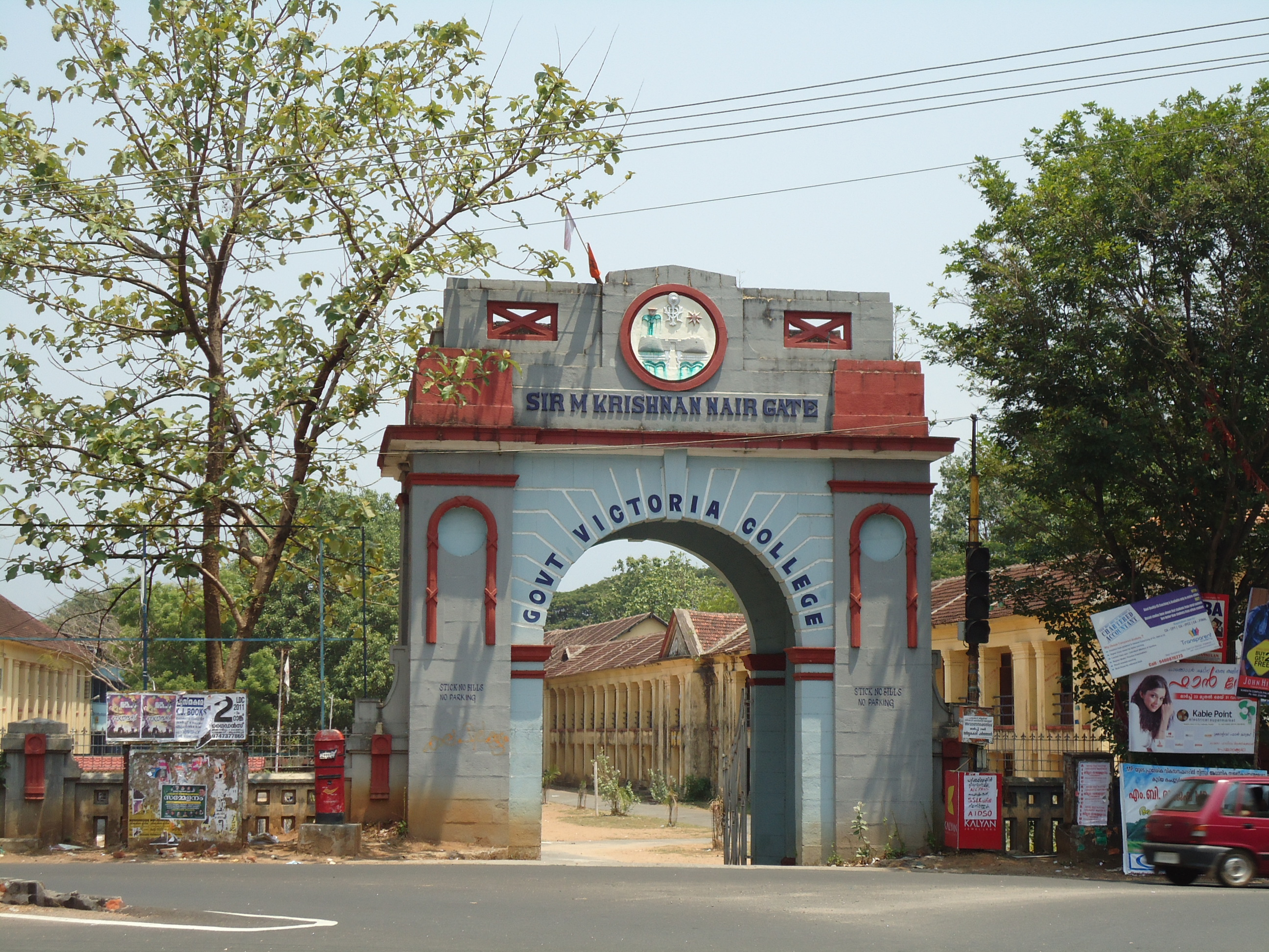 Govt Victoria College Palakkad Entrance